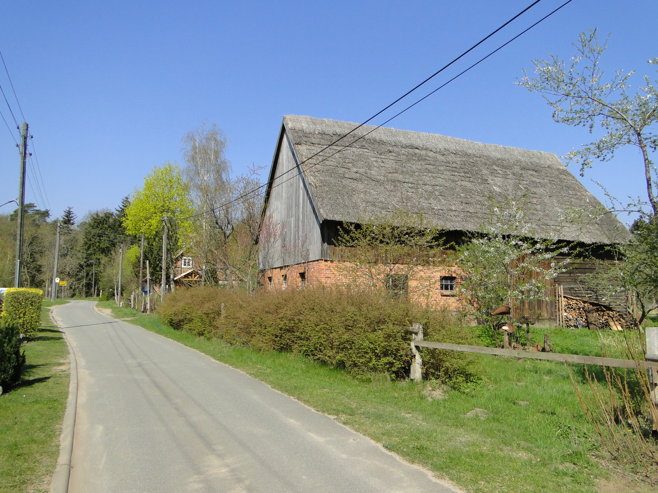 Barn in Kläden, district Parchim-Ludwigslust, Mecklenburg-Vorpommern, Germany